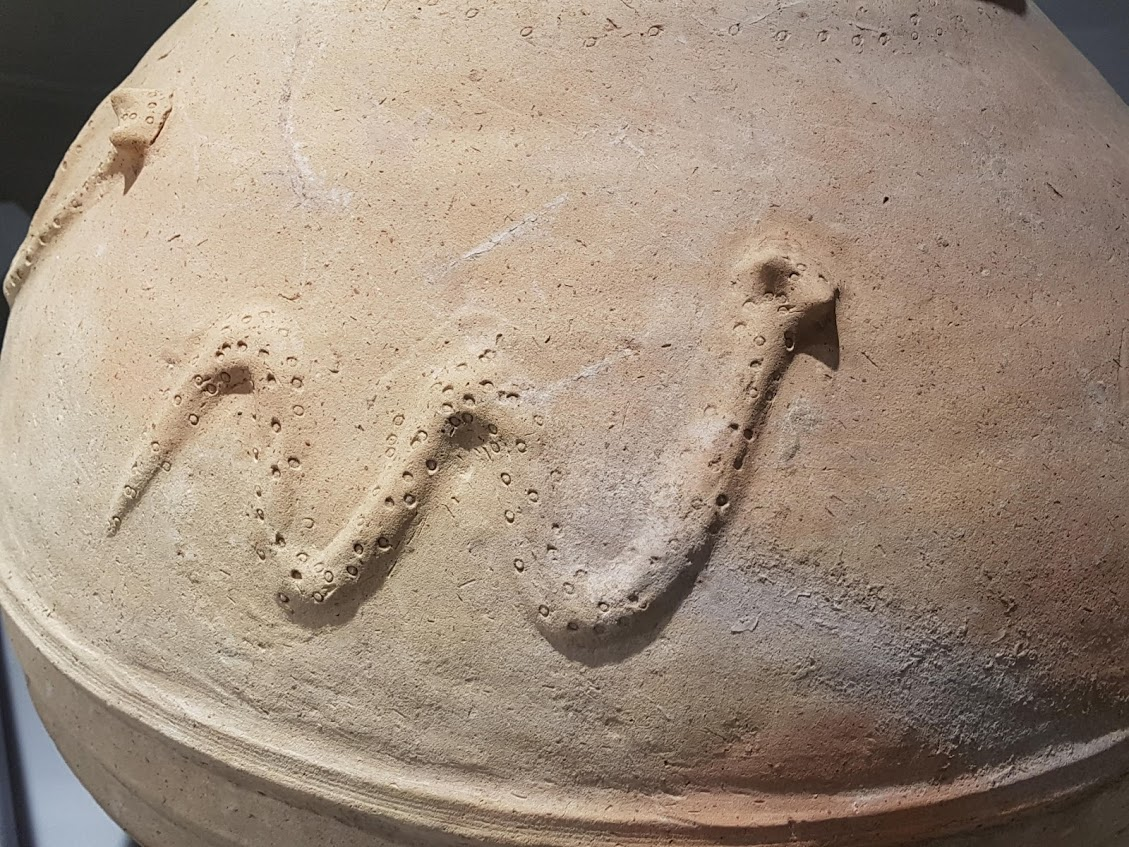 Snake decoration on pottery recovered from Suruq Al Hadid